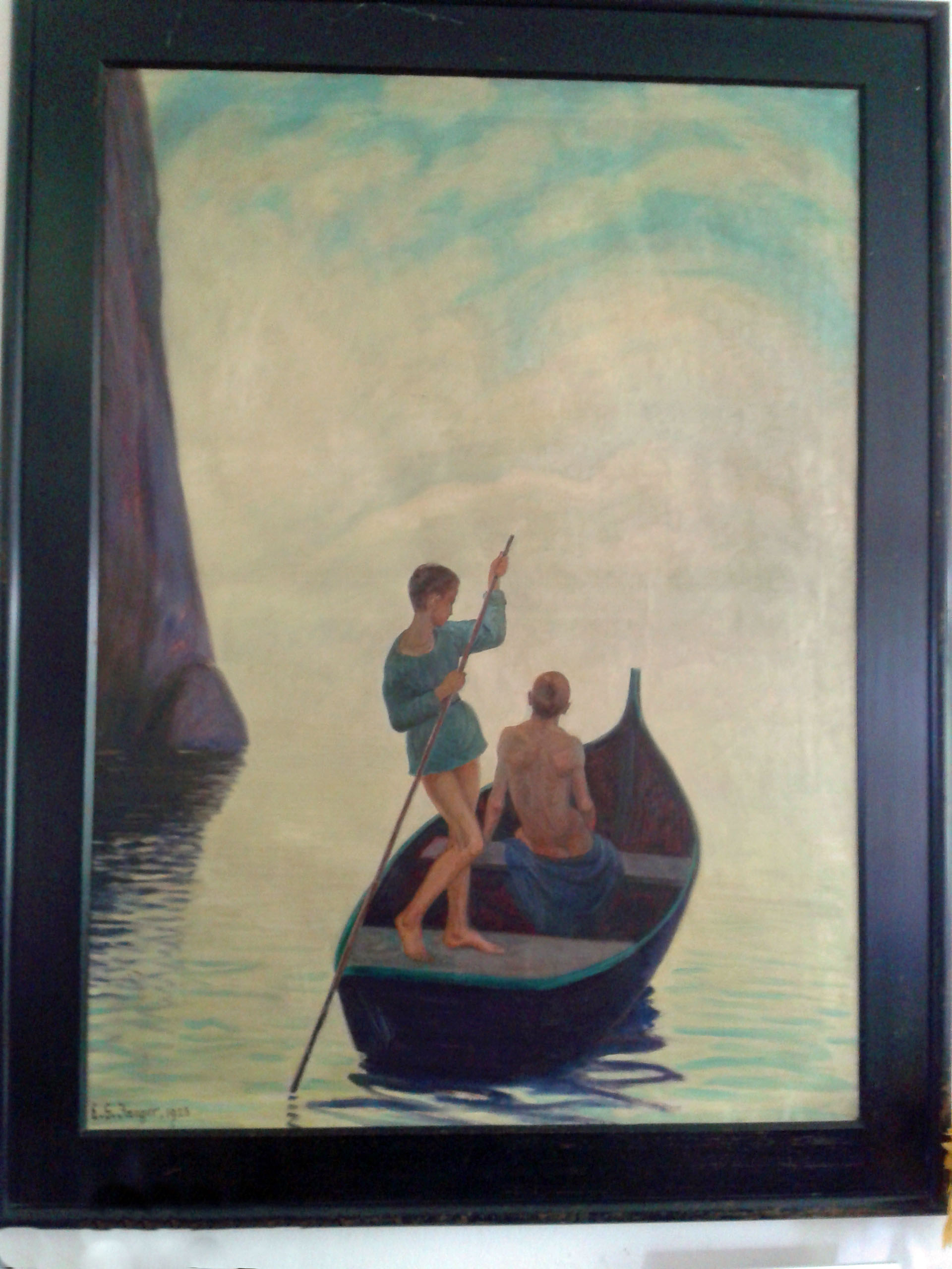 Oilpainting Ernst Gustav Jäger